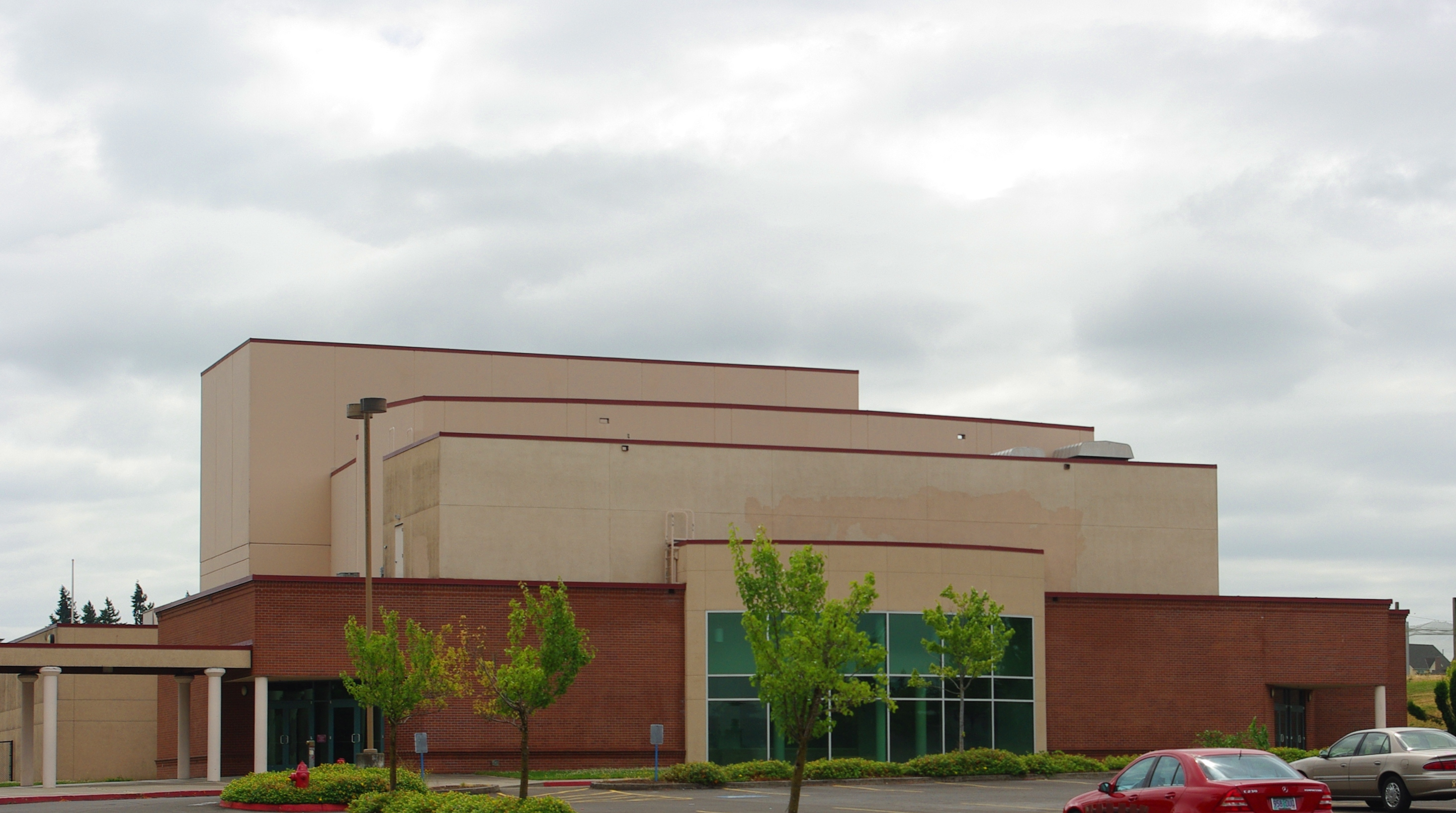 Tualatin High School in Tualatin, Oregon.